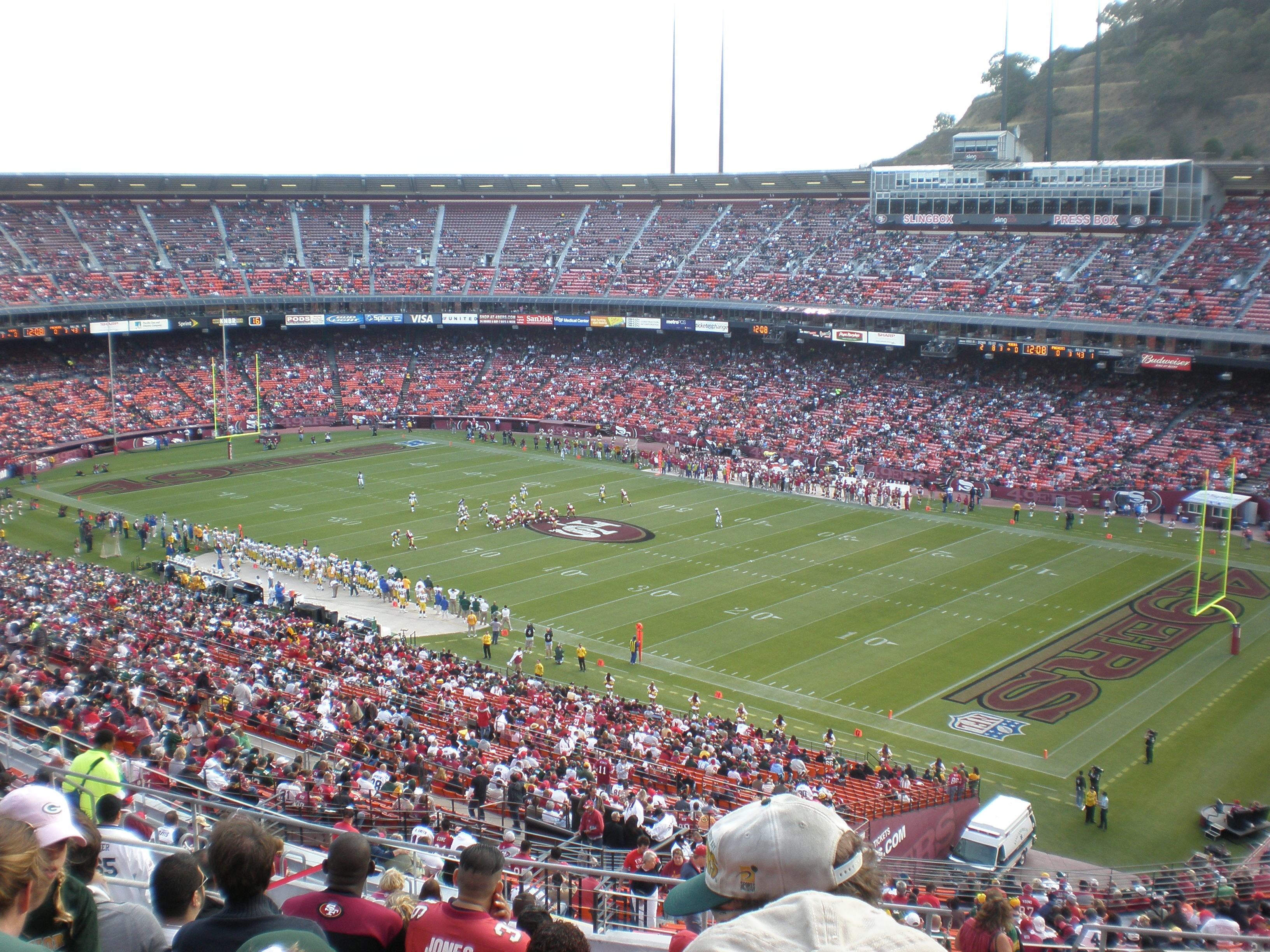 The Candlestick Park as seen from section 55 during a pre-season game between the Green Bay Packers and the San Francisco 49ers. The 49ers won 34-6.